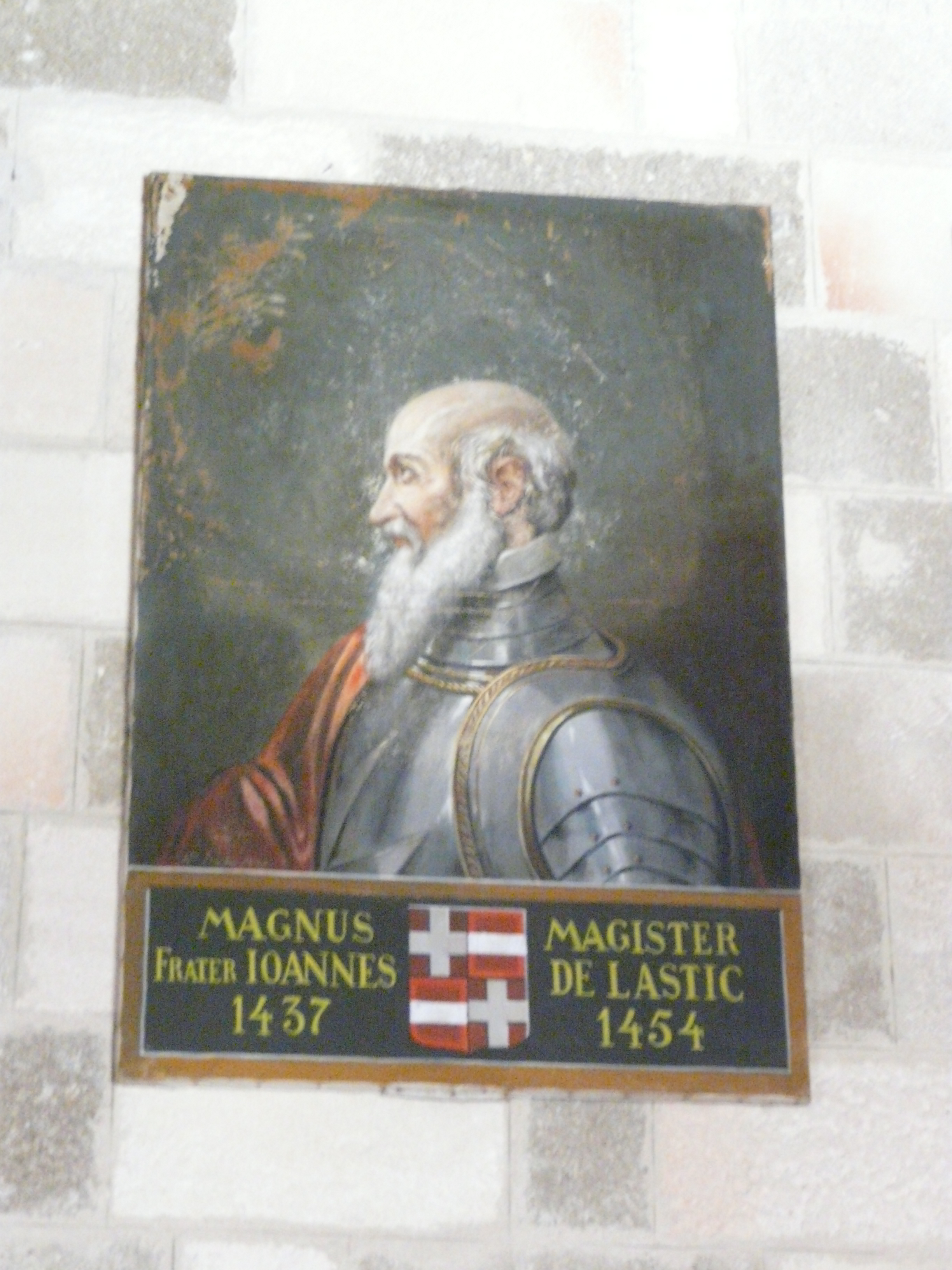 Palace of the Grand Master of the Knights of Rhodes